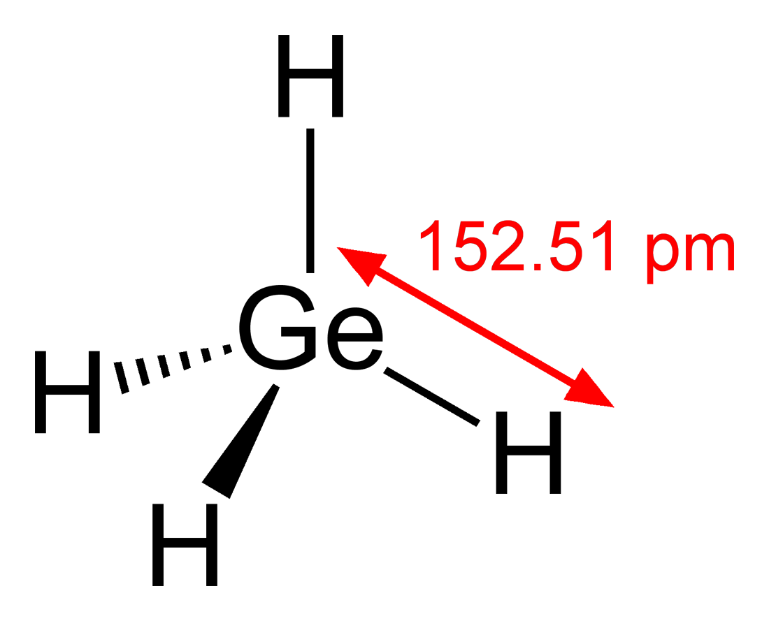 Structure of the germane (germanium tetrahydride) molecule, GeH4, with the Ge-H bond length of 1.5251 Å. Data from CRC Handbook of Chemistry and Physics, 88th edition.